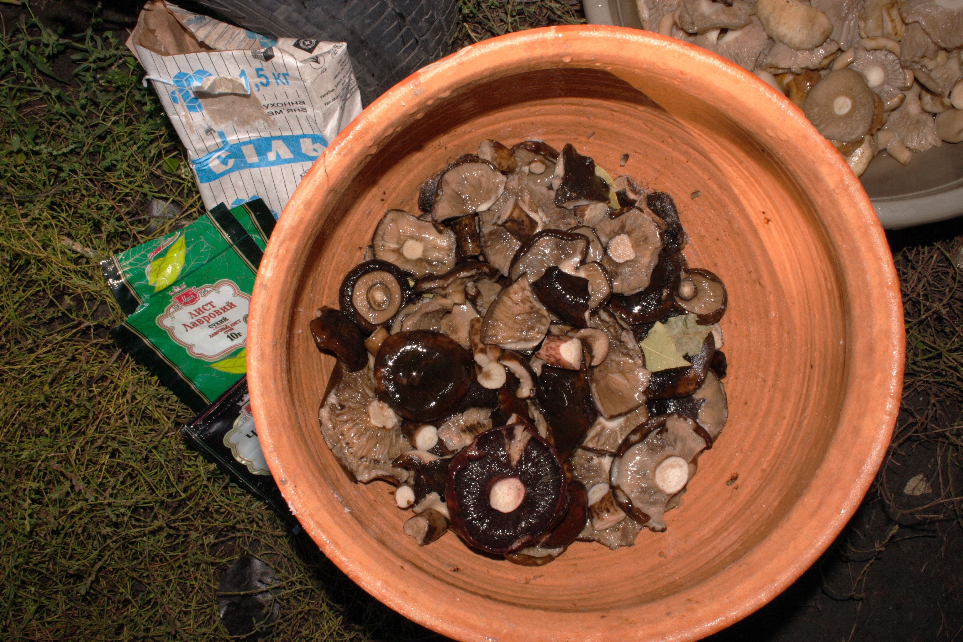 Salting of Lactarius turpis